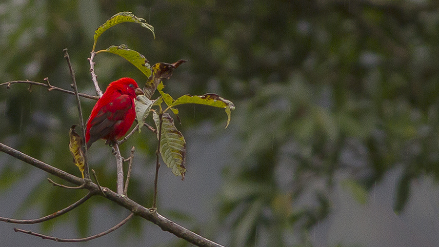 The species Scarlet Finch had been photographed during GoingWild's birding trip at Khangchendzonga National park in West Sikkim, India on 30.10.2015.